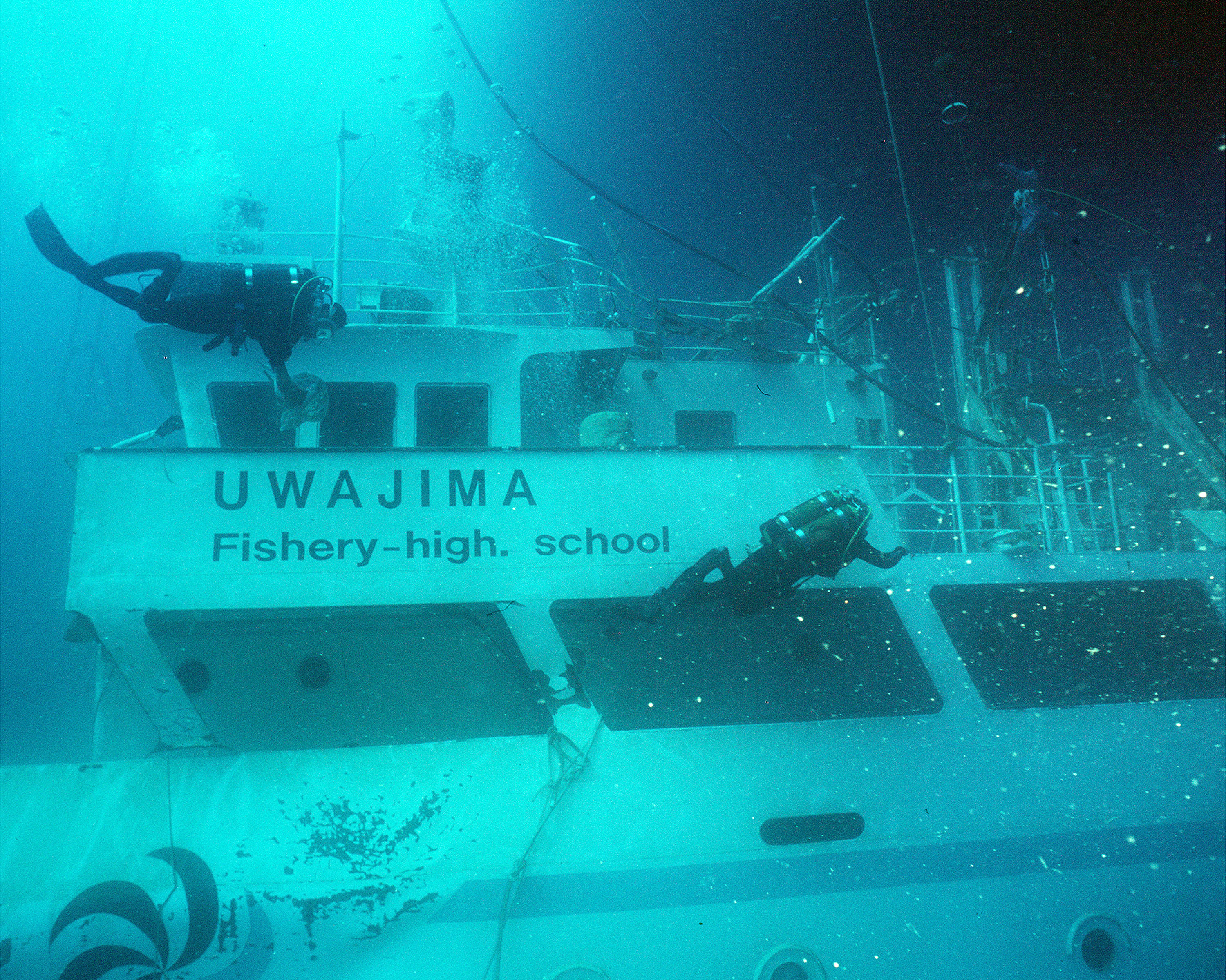 011105-N-3093M-041 Honolulu, Hawaii -- U.S. Navy divers swim along Ehime Maru during recovery operations off the Honolulu coast. Ehime Maru sank after a collision with US Navy submarine USS Greeneville (SSN-772).